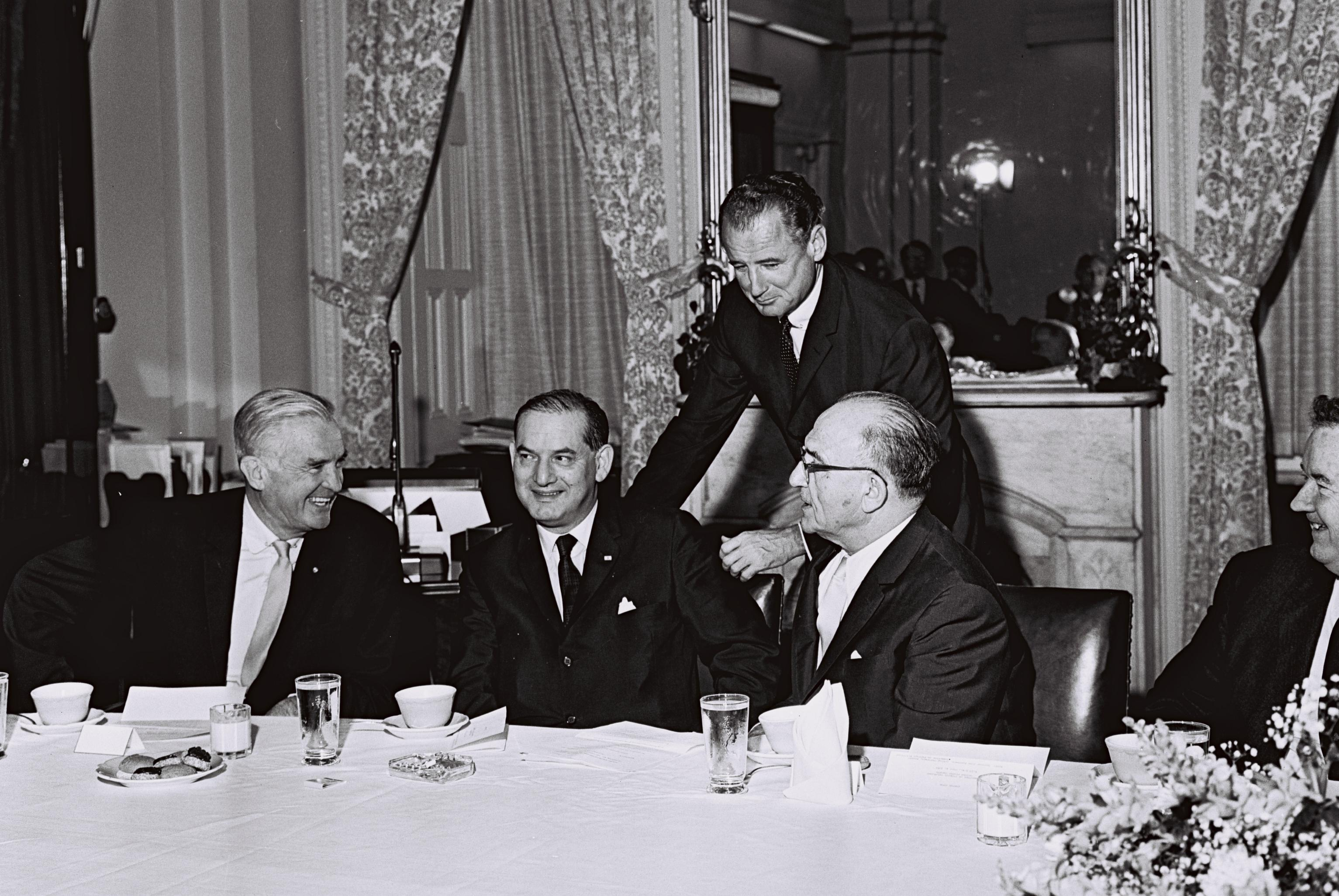 PM ESHKOL MEETING SENATORS OF THE FOREIGN RELATIONCOM. AT THE CAPITOL IN WASHINGTON. L-R: SENATOR SYMINGTON, AMB. HARMAN, P.M.ESHKOL & SEN. SPARKMAN. BACK, SEN. SMATHERS.